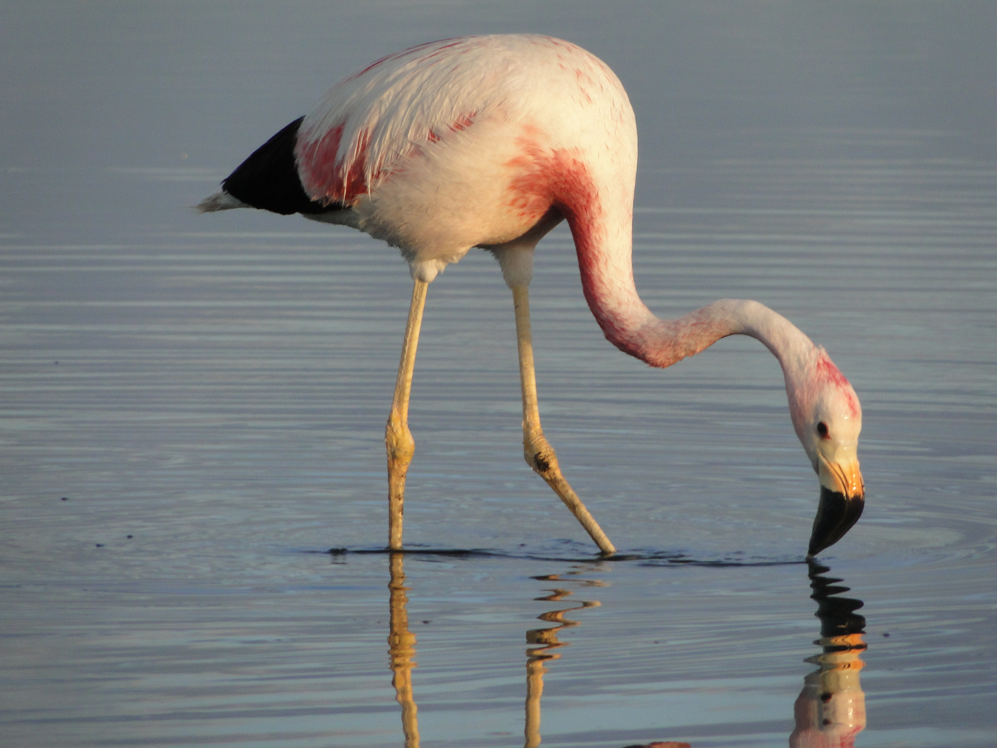 Amanecer con Flamencos en Laguna Chaxa, Reserva Nacional Los Flamencos, Salar de Atacama.